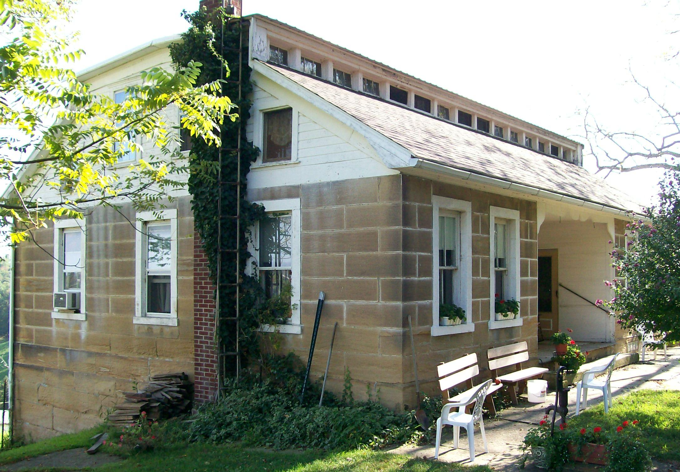 The Kindleberger House listed on the NRHP for Monroe County, Ohio. The property is photographed looking southwest.